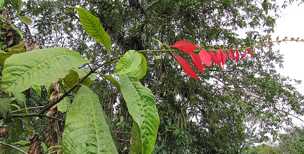 Ranges from Nicaragua to Bolivia under names such as Pastora and Zorilla Bandera. Photo from Sarapiqui Valley, Costa Rica. In context at